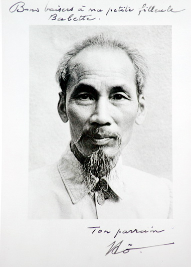 Ho Chi Minh portrait in c. 1946. This is a gift from Ho Chi Minh to Raymond Aubrac, whose daughter is Ho Chi Minh's goddaughter. What reads from photo (in French): "A big kiss to my little god-daughter Babette. Your god-father. Ho"